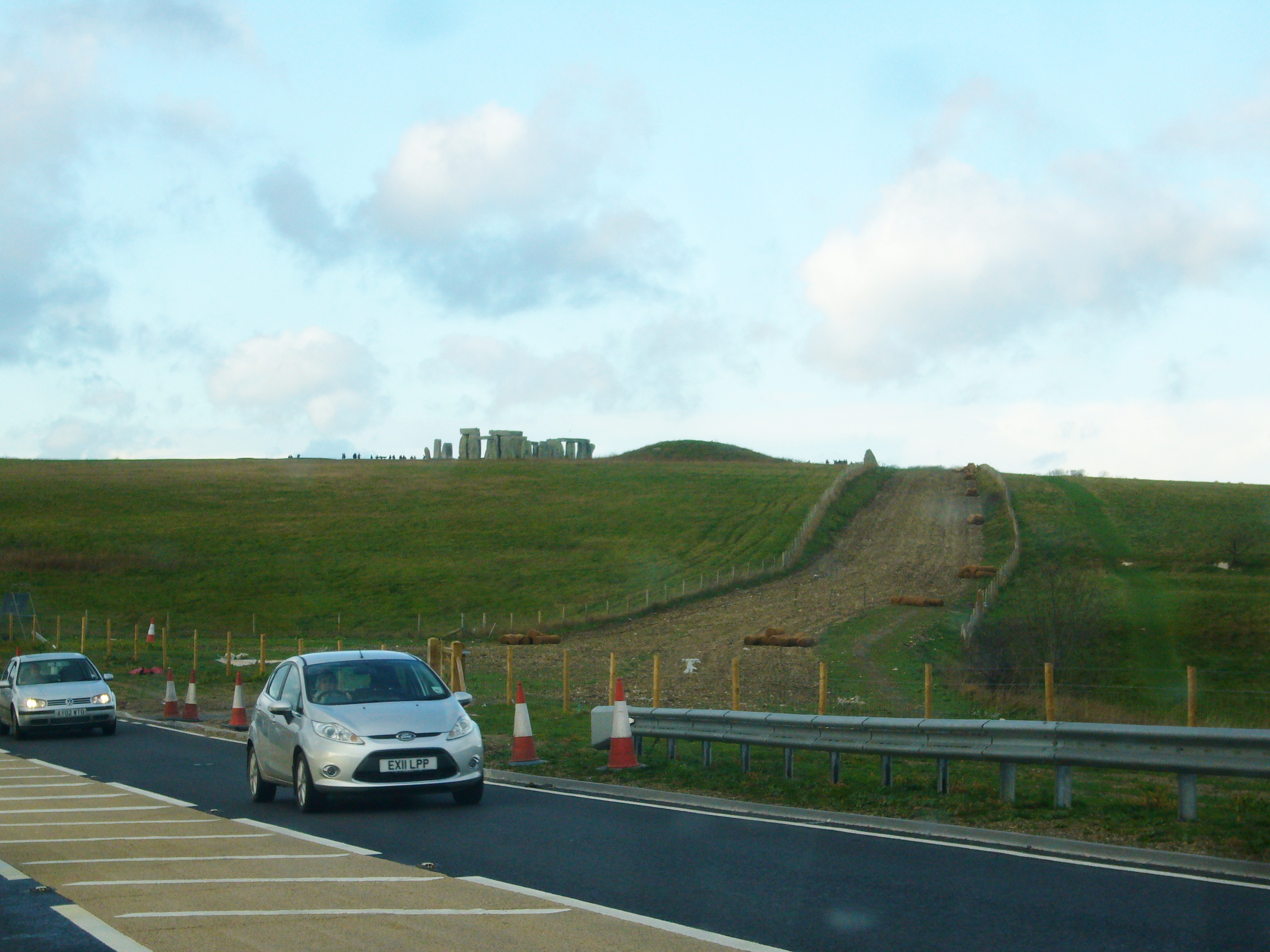 Old A344 at Stonehenge, closed in 2013 and 'grassed over'.